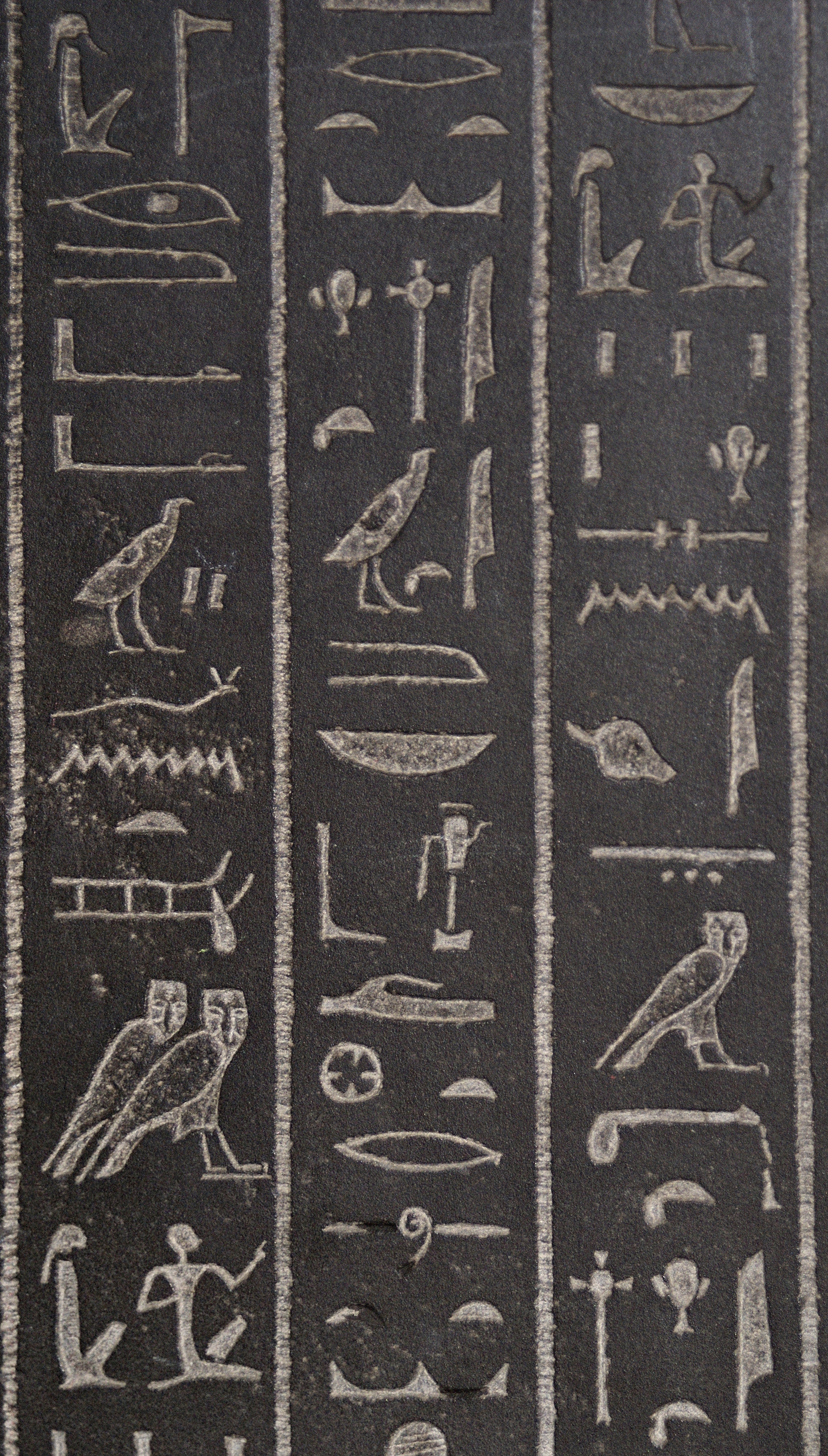 Detail from the side of the Sarcophagus of Ankhnesneferibre from the Twenty-Sixth Dynasty, about 530 BC, Thebes, at the British Museum.Egyptian hieroglyphs:(Read from column right, to the left-(columns, 3-2-1(last)-(into the facing direction of hieroglyphs))Column 3:Man and Worman, Strip of Land, with GrainsColumn 2:Vertical-Cross, Water Libation Pot-(or:-(hs) hieroglyph)Column 1:Sled of God Tem, Vertical-Cross, Man and Worman